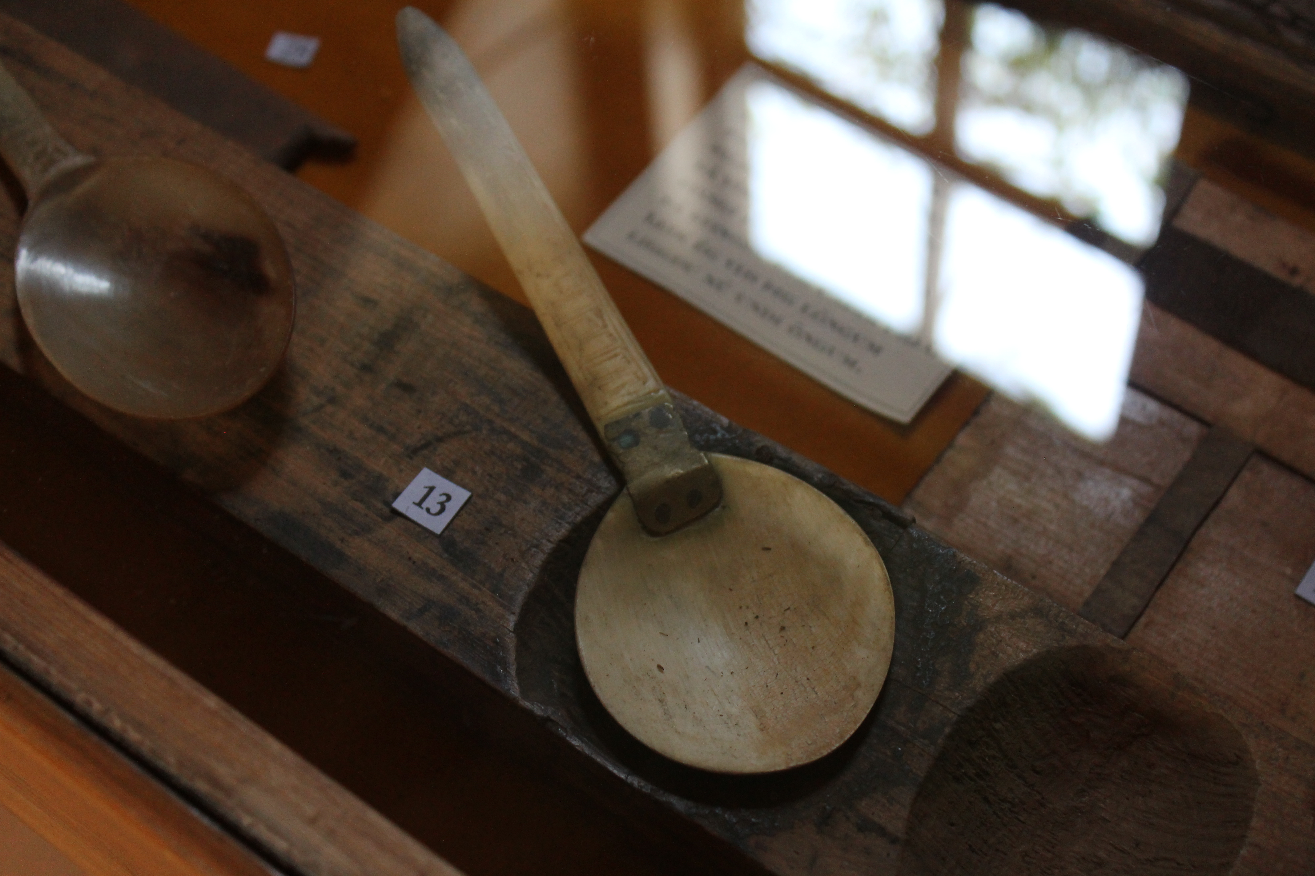 Spoon made from the horn of a cow. Glaumbær museum, Skagafjörður, Northern Iceland.